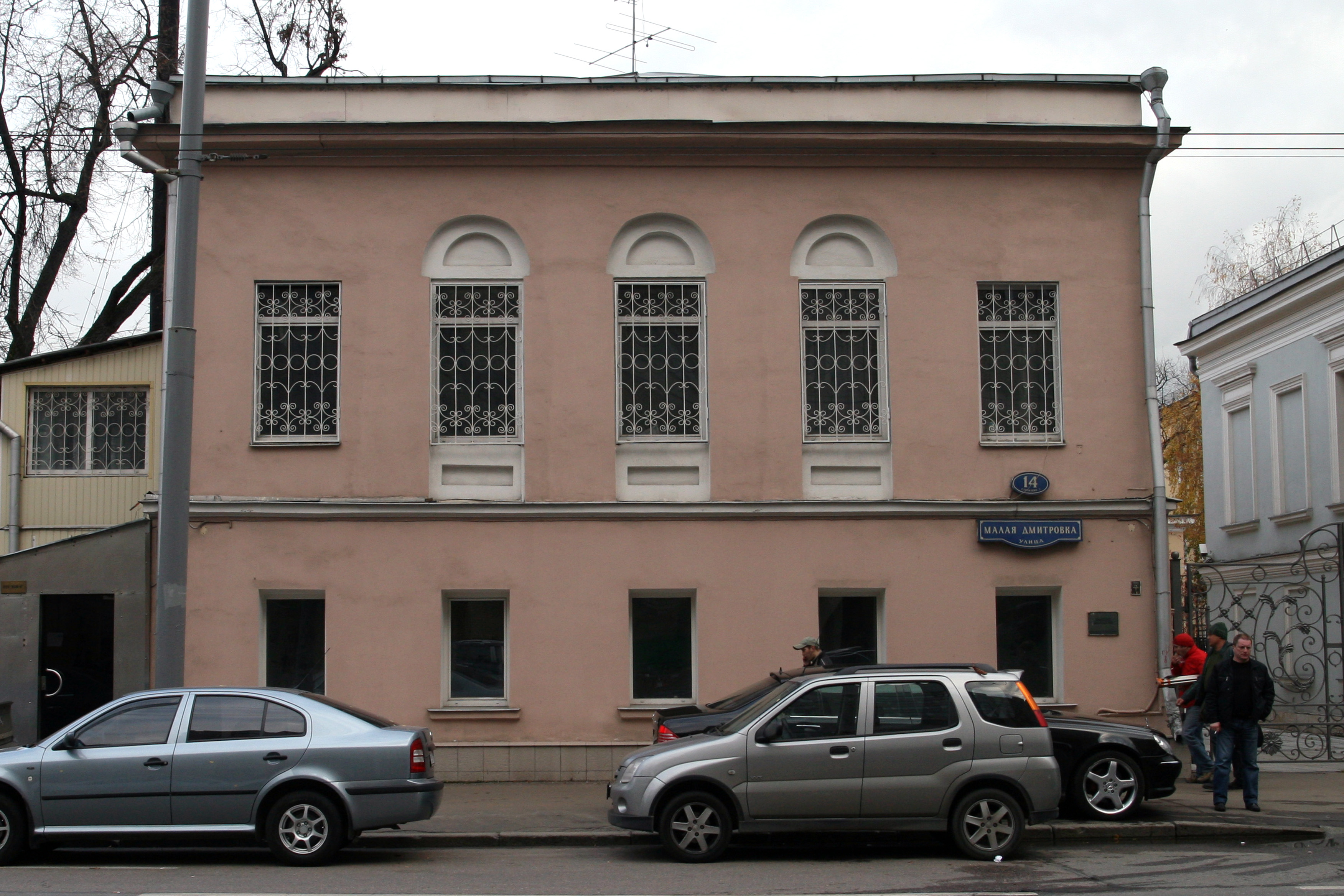 Moscow, Malaya Dmitrovka Street 14